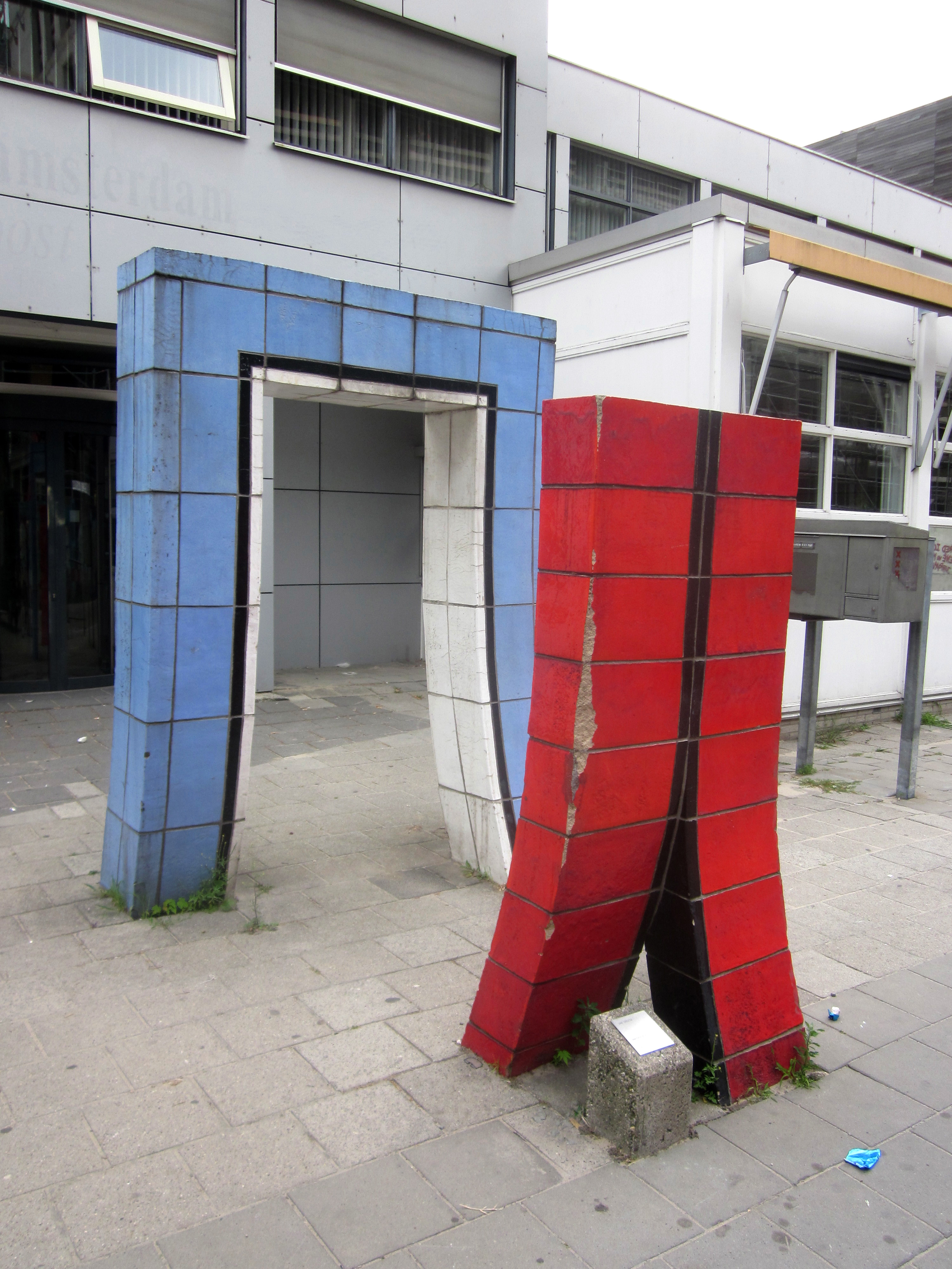 Sculpture "wandelend muurtje" (Walking wall) by Jan Snoeck from 1984 at the Polderweg in AMsterdam in front of the Cosmicus Lyceum.